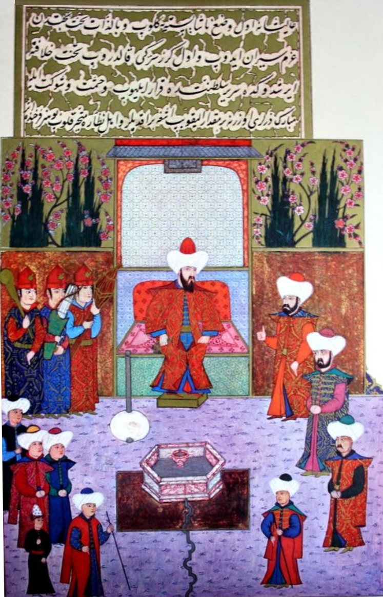 Orhan Gazi